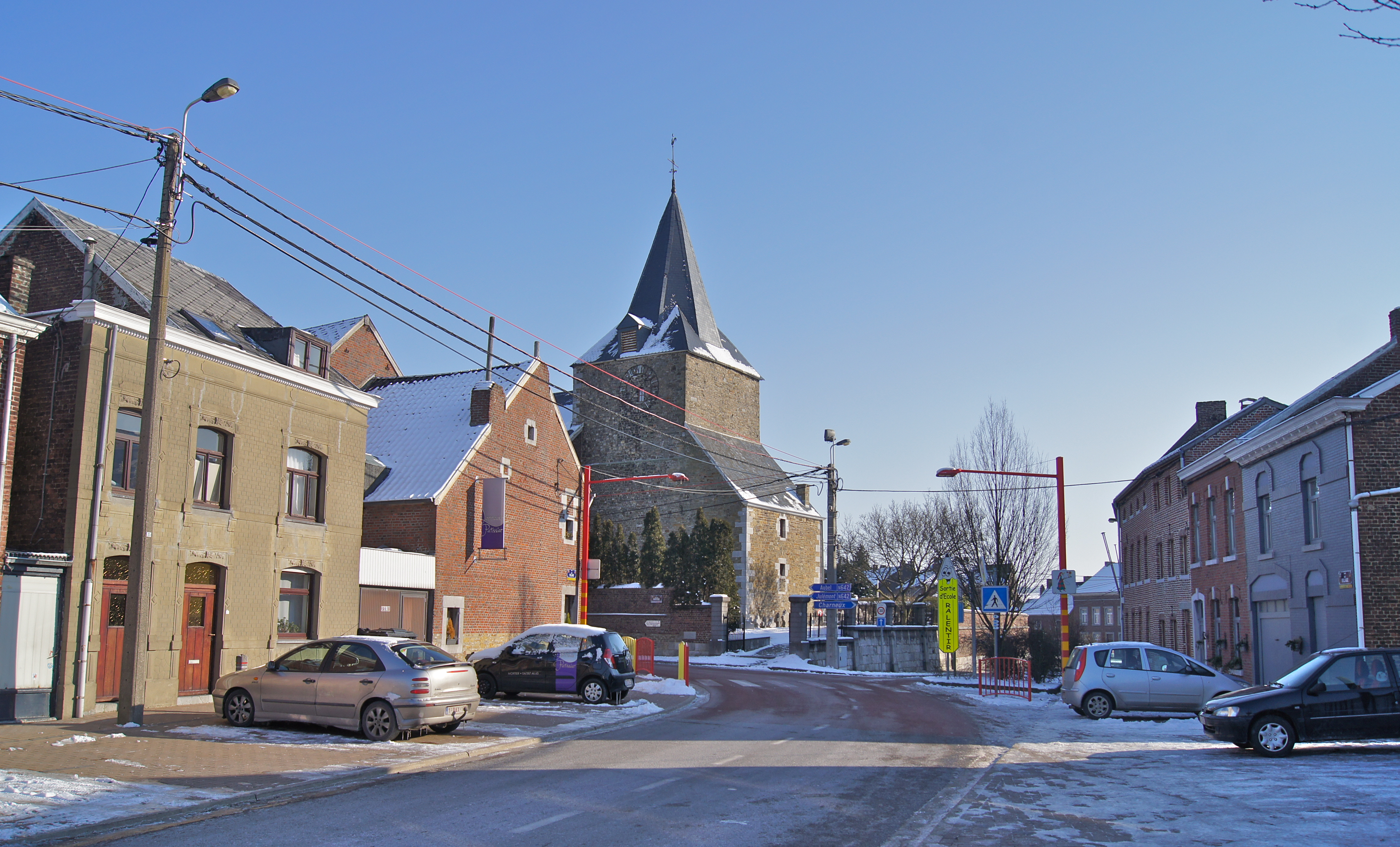 Blegny (Mortier), Belgium: Panorama from the central square